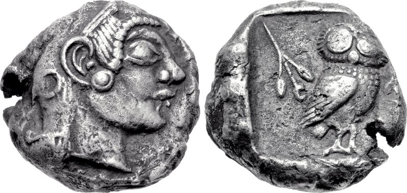 Athens coin discovered in Pushkalavati. ATTICA, Athens. Circa 500/490-485/0 BC. In 2007, at the site of ancient Pushkalavati (Shaikhan Dehri) in Pakistan, a small coin hoard was discovered that contained this tetradrachm of Athens, in addition to a number of local types, some blank flans, and four cake-type cast ingots. Dated to circa 500/490-485/0 BC, this coin is the earliest known example of its type to be found so far east.